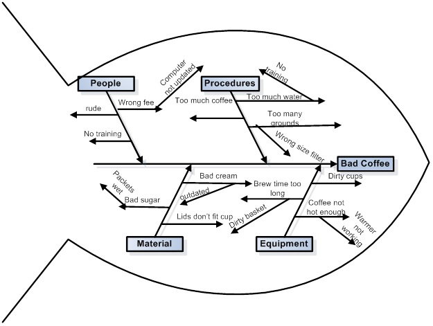 Fishbone Diagram showing potential reasons for a bad cup of coffee